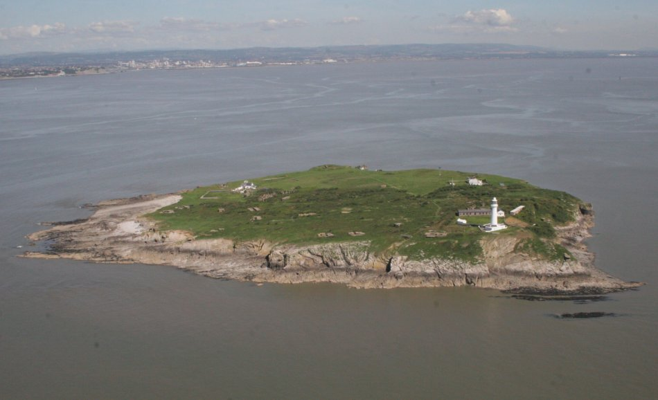 Flat Holm Aerial view